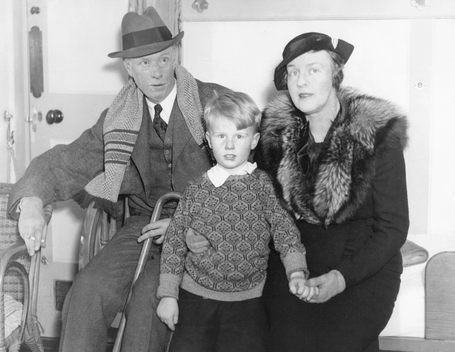 1935 Press Photo Sinclair Lewis Nobel Award Literature Dorothy Thompson